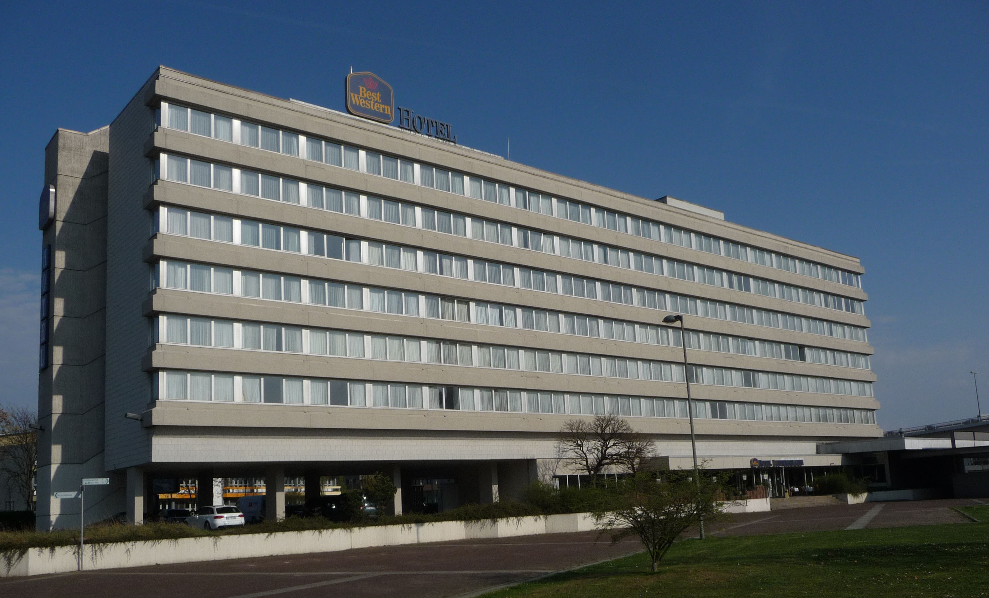 hotel in Ludwigshafen, Germany